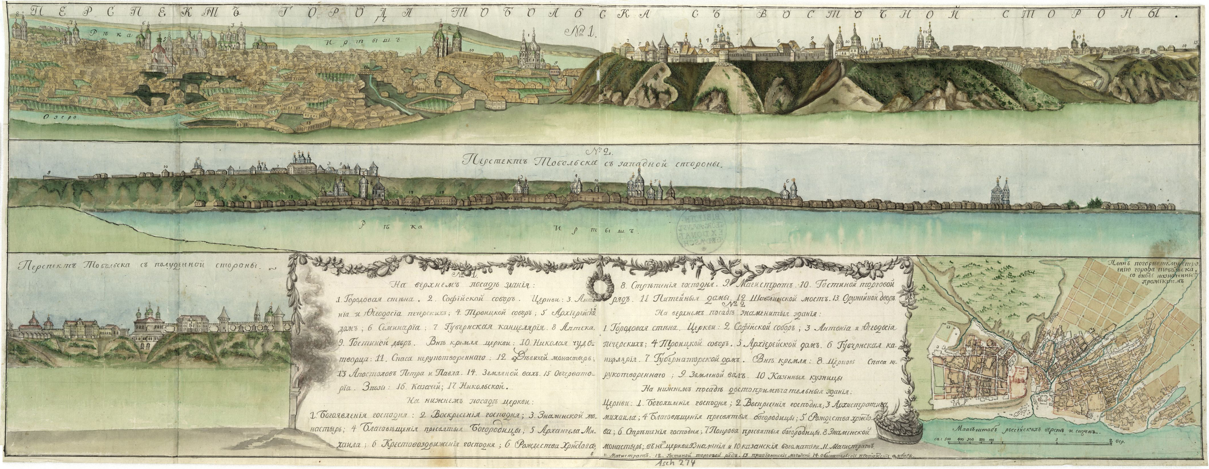 Tobolsk, the capital of Siberia